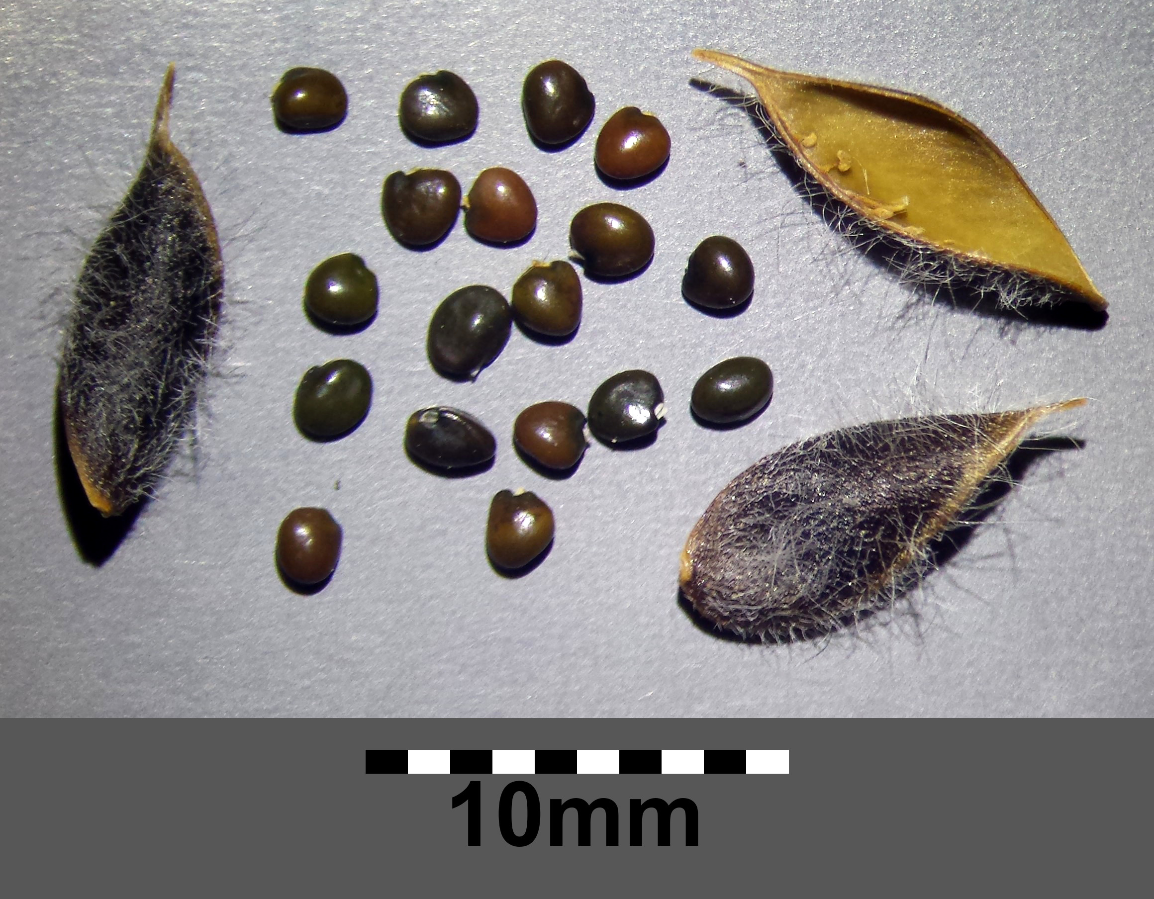 Opened fruits with seeds Taxonym: Genista germanica ss Fischer et al. EfÖLS 2008 ISBN 978-3-85474-187-9 Location: Rohrwald, district Korneuburg, Lower Austria - ca. 300 m a.s.l. (leg.: 2016-07-23) Habitat: Carpinion betuli